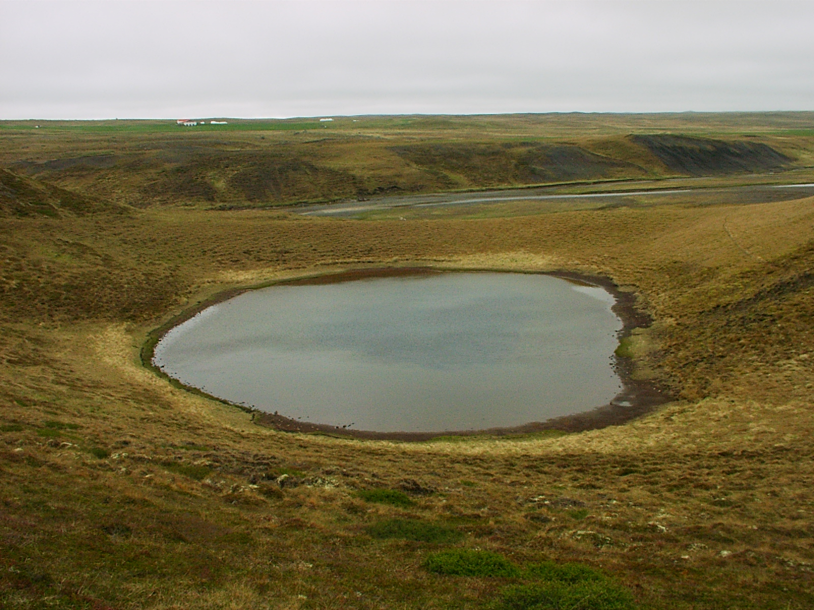 An Explosion Crater nearby Brekkulægur south of the town Hvammstangi in Iceland